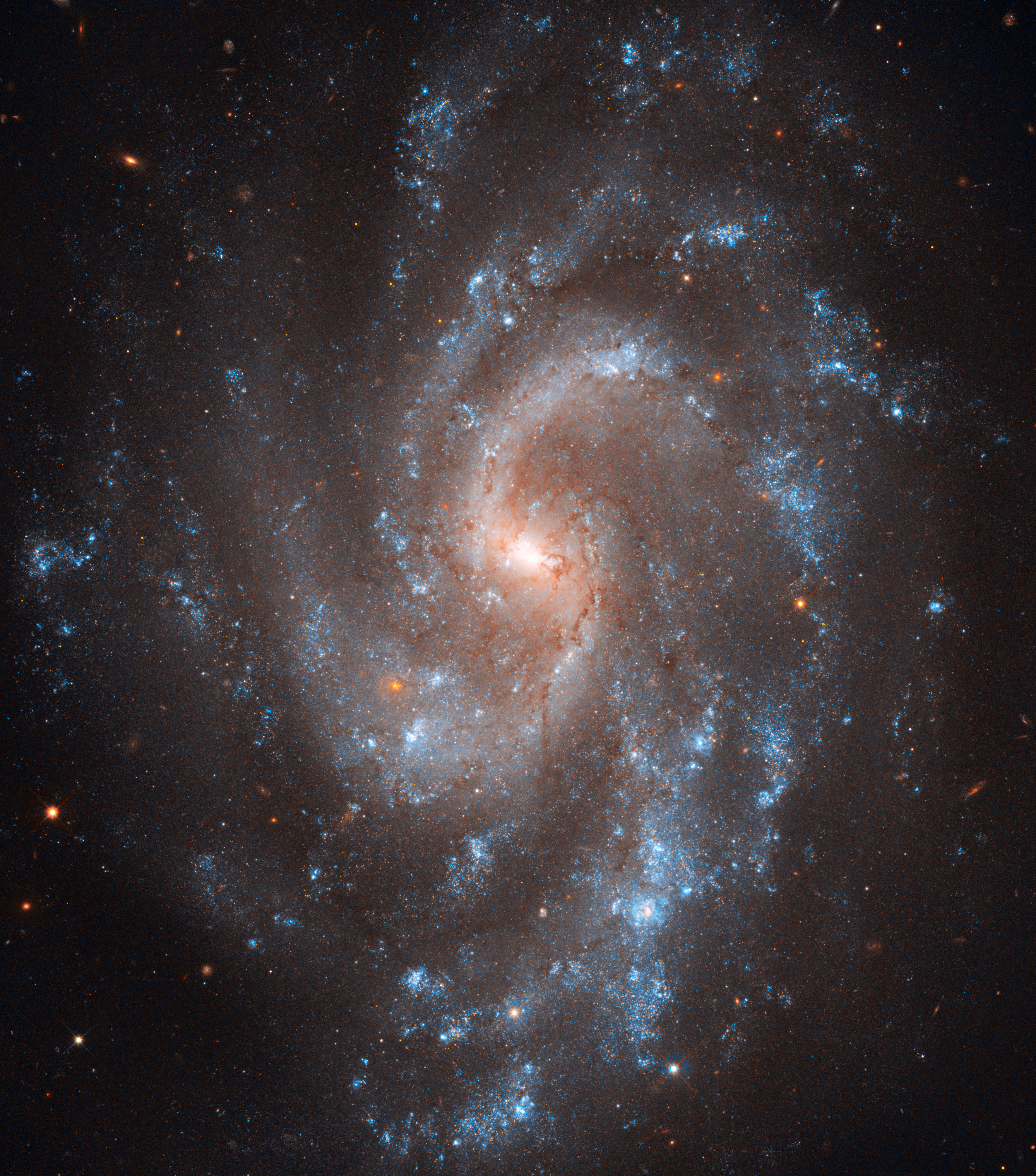 The brilliant, blue glow of young stars trace the graceful spiral arms of galaxy NGC 5584 in this Hubble Space Telescope image. Thin, dark dust lanes appear to be flowing from the yellowish core, where older stars reside. The reddish dots sprinkled throughout the image are largely background galaxies. Among the galaxy's myriad stars are pulsating stars called Cepheid variables and one recent Type Ia supernova, a special class of exploding stars. Astronomers use Cepheid variables and Type Ia supernovae as reliable distance markers to measure the universe's expansion rate. NGC 5584 was one of eight galaxies astronomers studied to measure the universe's expansion rate. In those galaxies, astronomers analyzed more than 600 Cepheid variables, including 250 in NGC 5584. Cepheid variables pulsate at a rate matched closely by their intrinsic brightness, making them ideal for measuring distances to relatively nearby galaxies. Type Ia supernovae flare with the same brightness and are brilliant enough to be seen from relatively longer distances. Astronomers search for Type Ia supernovae in nearby galaxies containing Cepheid variables so they can compare true brightness of both types of stars. They then use that information to calibrate the measurement of Type Ia supernovae in far-flung galaxies and calculate their distance from Earth. Once astronomers know accurate distances to galaxies near and far, they can determine the universe's expansion rate. The image is a composite of several exposures taken in visible light between January and April 2010 with Hubble's Wide Field Camera 3. NGC 5584 resides 72 million light-years away in the constellation Virgo.